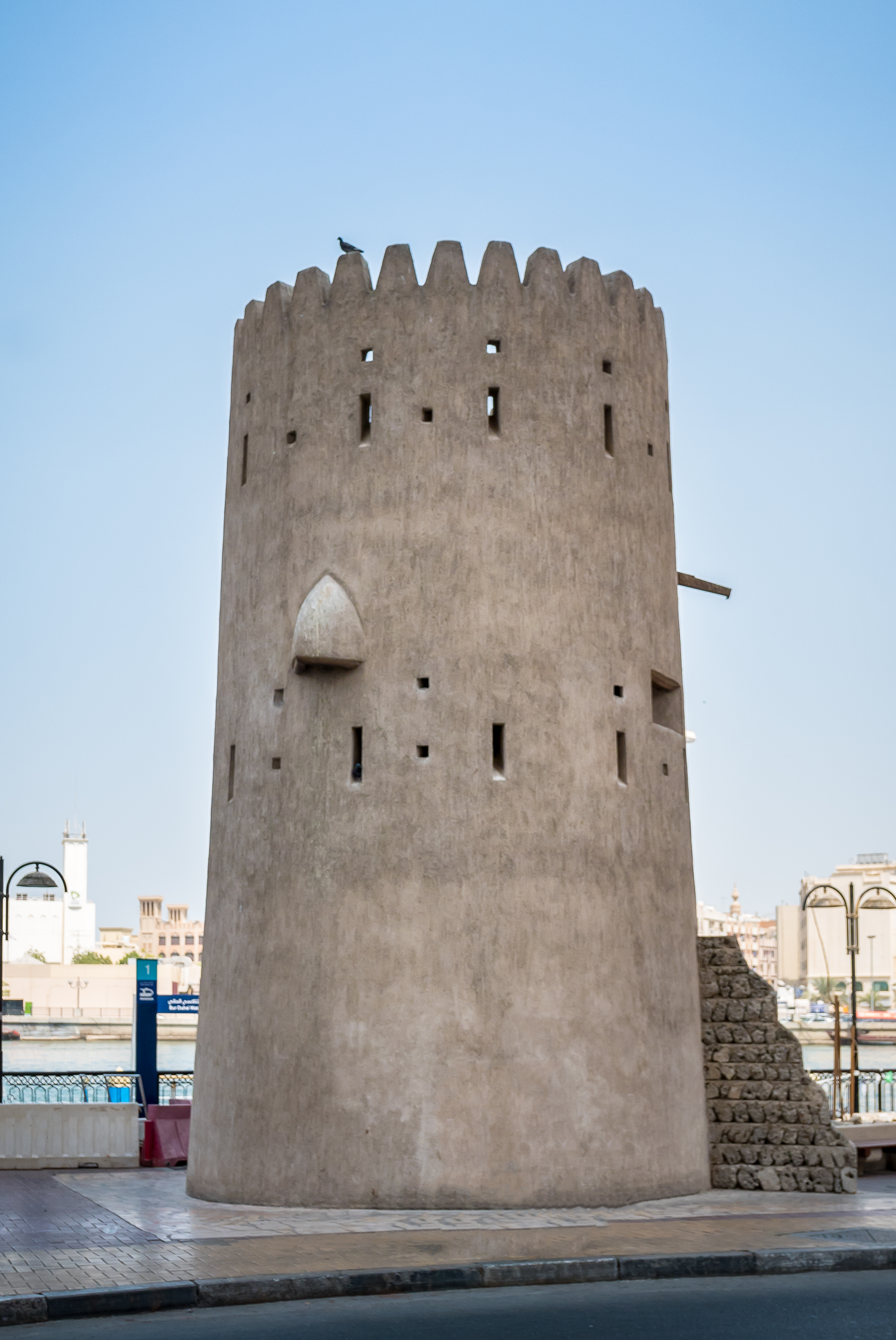 A round watchtower (name unknown) This is a monument in the United Arab Emirates identified by the ID D-3